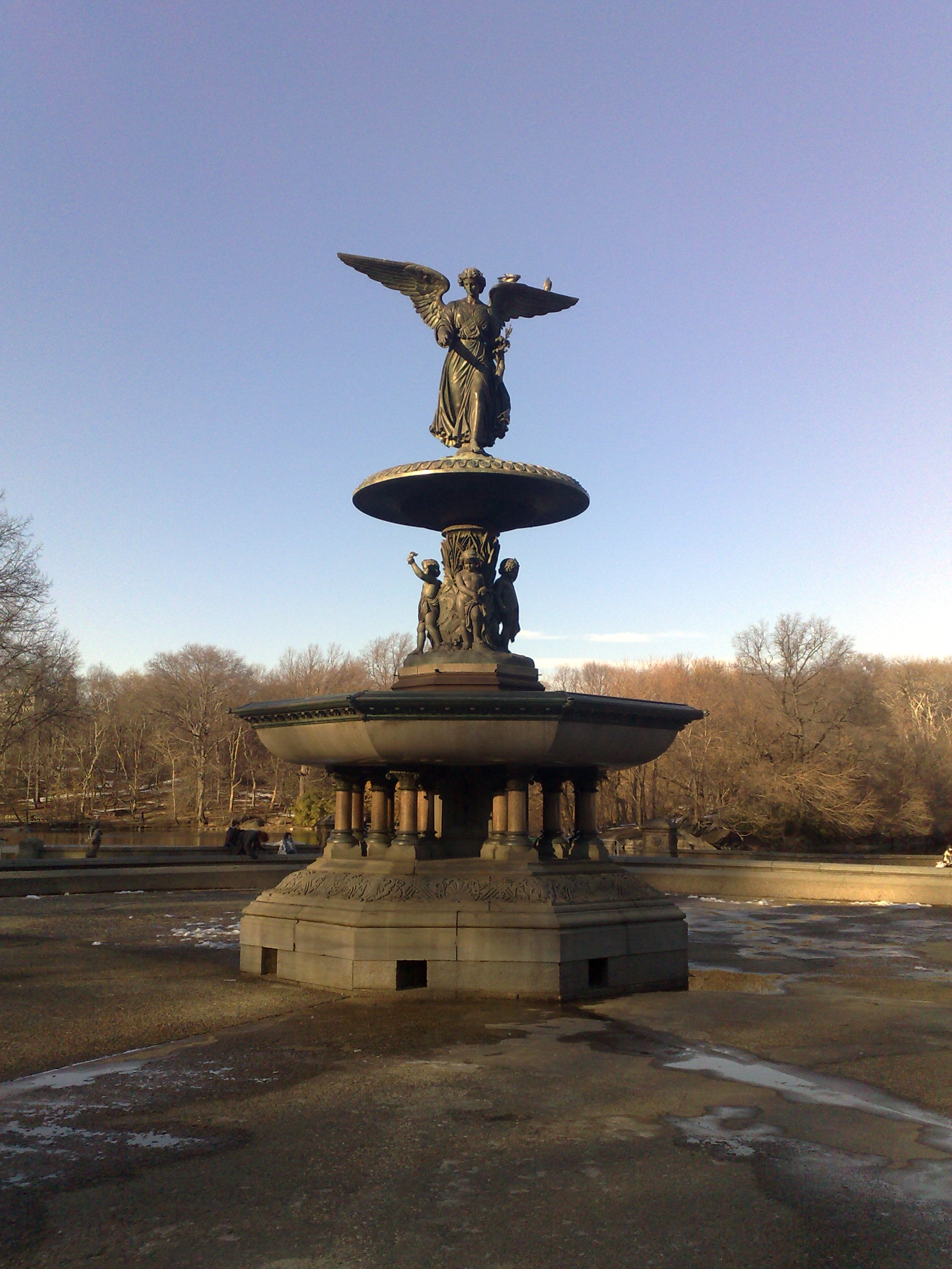 Bethesda Fountain by Emma Stebbins, (Central Park, NYC)